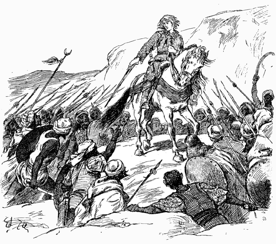 Image from french illustrator Édouard Zier of knight Vivien during the battle of Aliscans, for the book "Futurs Chevaliers" ("Knights To Be") from Noemi Balleyguier